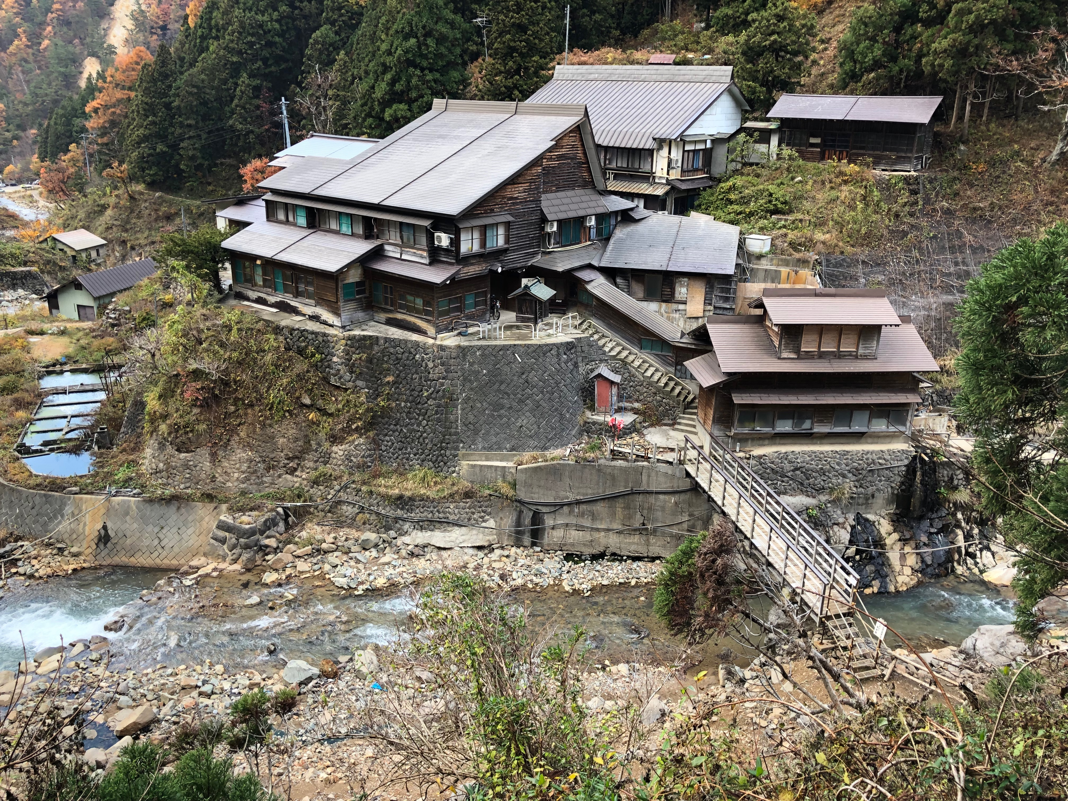 Jigokudani Onsen Korakukan, Yamanouchi, in November 2018